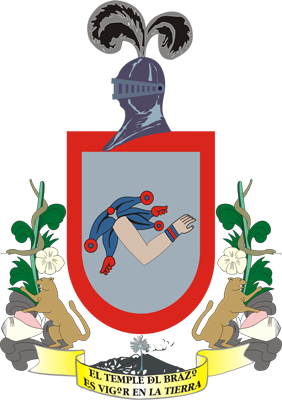 Colima Coat of Arms